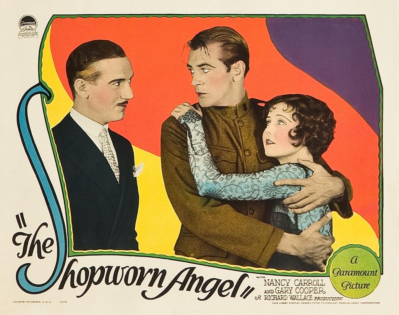 Lobby card for the American romantic drama film The Shopworn Angel (1928). There are no copyright marks. At bottom left is Country of origin USA 1875. At bottom right is This lobby display leased from Paramount Famous Lasky Corporation.